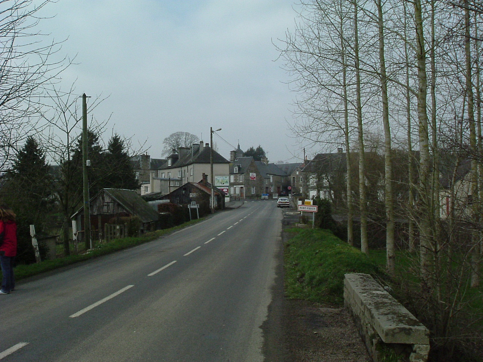 Pont-Farcy along the D52 north.